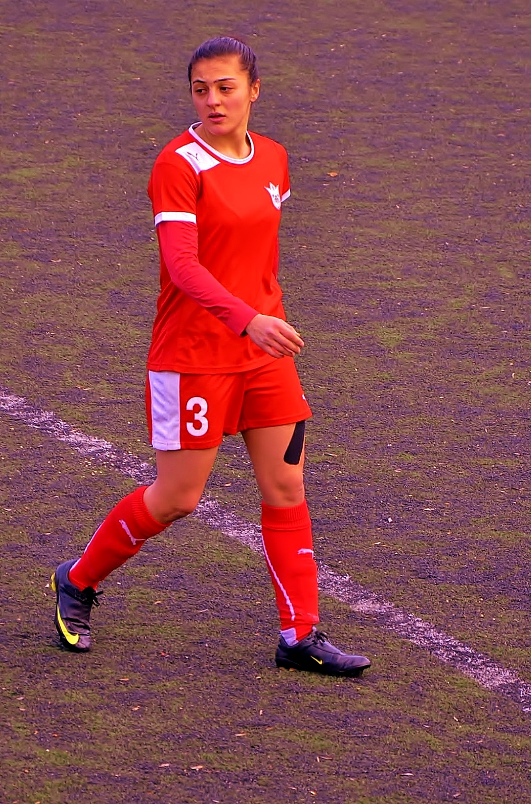 Didem Karagenç Konak Belediyespor defender in the Turkish Women's First League match against Marmara Üniversitesi Spor on Jan 12, 2014